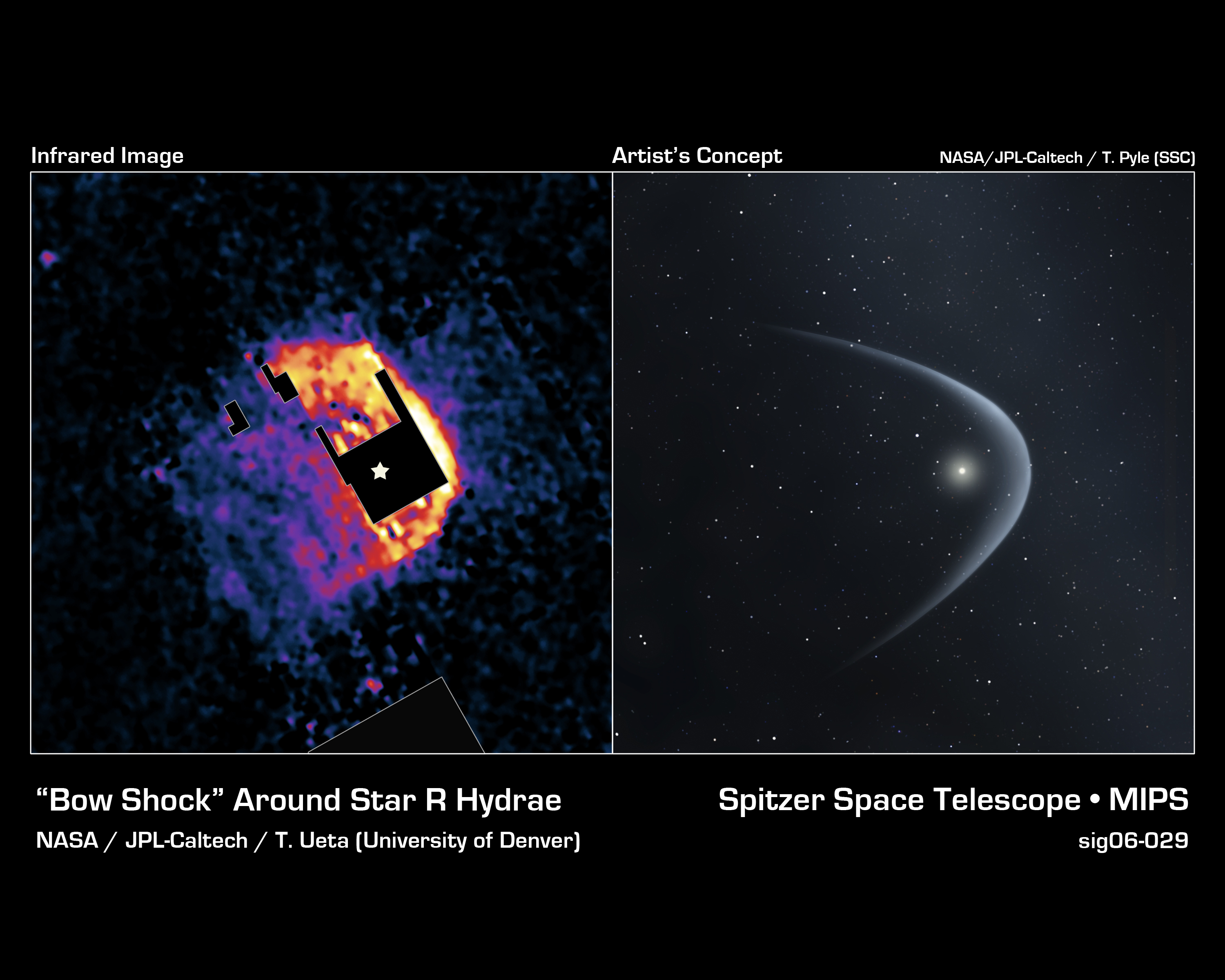 This image from the Spitzer Space Telescope (left panel) shows the "bow shock" of a dying star named R Hydrae (R Hya) in the constellation Hydra. Bow shocks are formed where the stellar wind from a star are pushed into a bow shape (illustration, right panel) as the star plunges through the gas and dust between stars. Prior to this image one had never been observed around this particular class of red giant star. Our own Sun has no bow shock, only a bow wave. R Hya moves through space at approximately 50 kilometers per second. As it does so, it discharges dust and gas into space. Because the star is relatively cool, that ejecta quickly assumes a solid state and collides with the interstellar medium. The resulting dusty nebula is invisible to the naked eye but can be detected using an infrared telescope. This bow shock is 16,295 AU from the star to the apex and 6,188 AU thick. 1 AU is the distance between the Sun and the Earth. The mass of the bow shock is about 400 times the mass of the Earth. The false-color Spitzer image shows infrared emissions at 70 microns. Brighter colors represent greater intensities of infrared light at that wavelength. The location of the star itself is drawn onto the picture in the black "unobserved" region in the center.